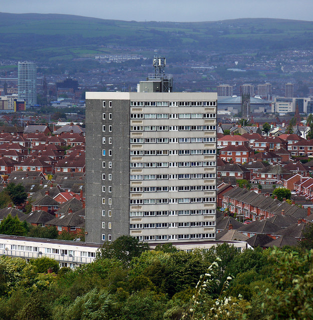 From the source: Clarawood House, Belfast. 15-storey tower block located at the end of Clara Way in Belfast. The tower, completed in 1967 by local firm F.B. McKee, is 44 metres tall and contains 57 flats. It is part of the Clarawood estate, built in the late 1940s by the Belfast Corporation, although this is the only tower block in the development. The view is from Knock Burial Ground (Knockmount Park).